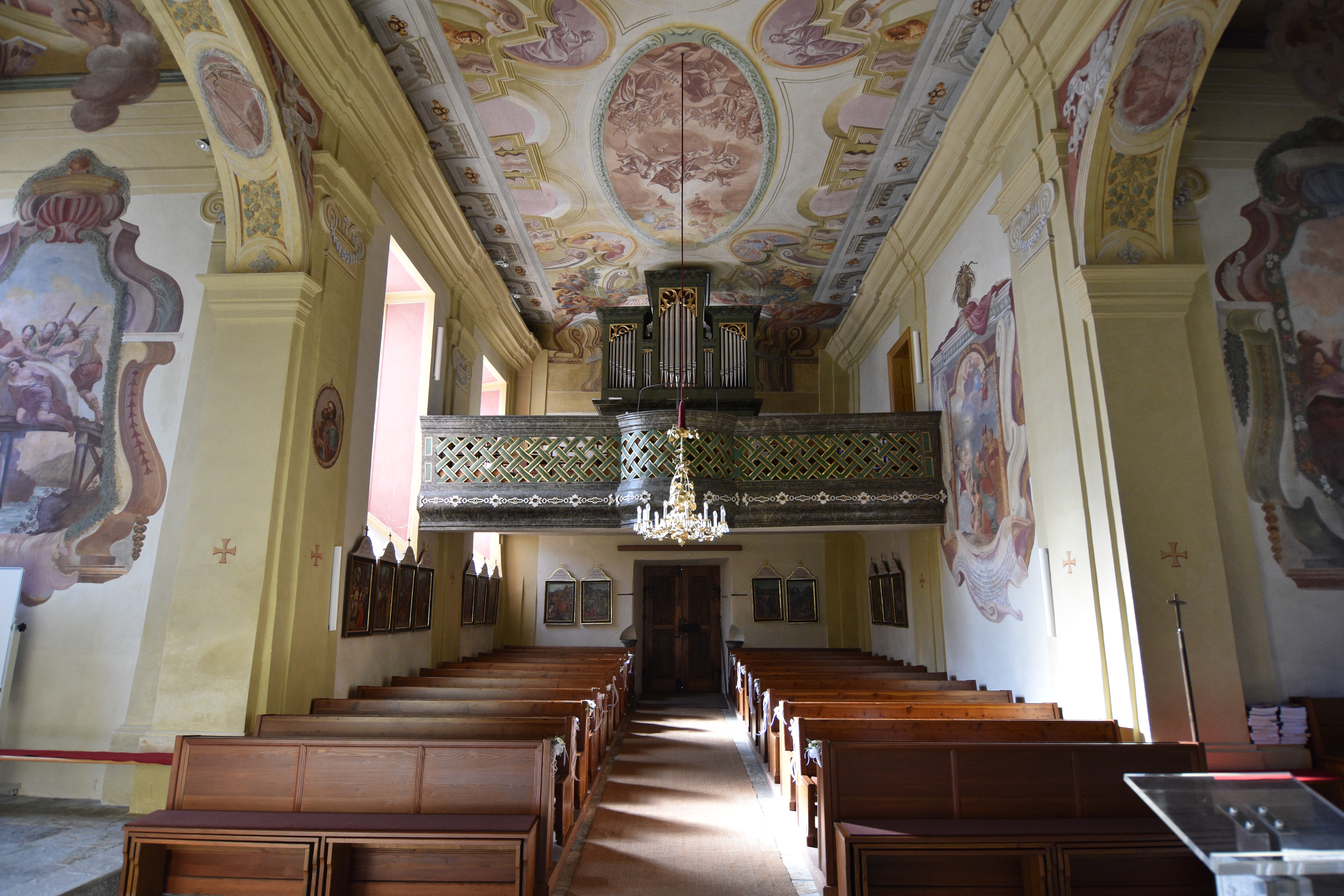 Church hl. Georg, Waldbach - Interior